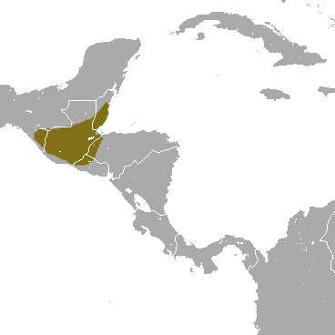 Tropical Small-eared Shrew (Cryptotis tropicalis) range